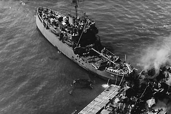 USS LST-480 burned out and grounded on Intrepid Point, West Loch, on 22 May 1944. A pontoon causeway is floating along LST-480's starboard side, and the Coast Guard Cutter Woodbine (WAGL-289) is nosed in at her stern.